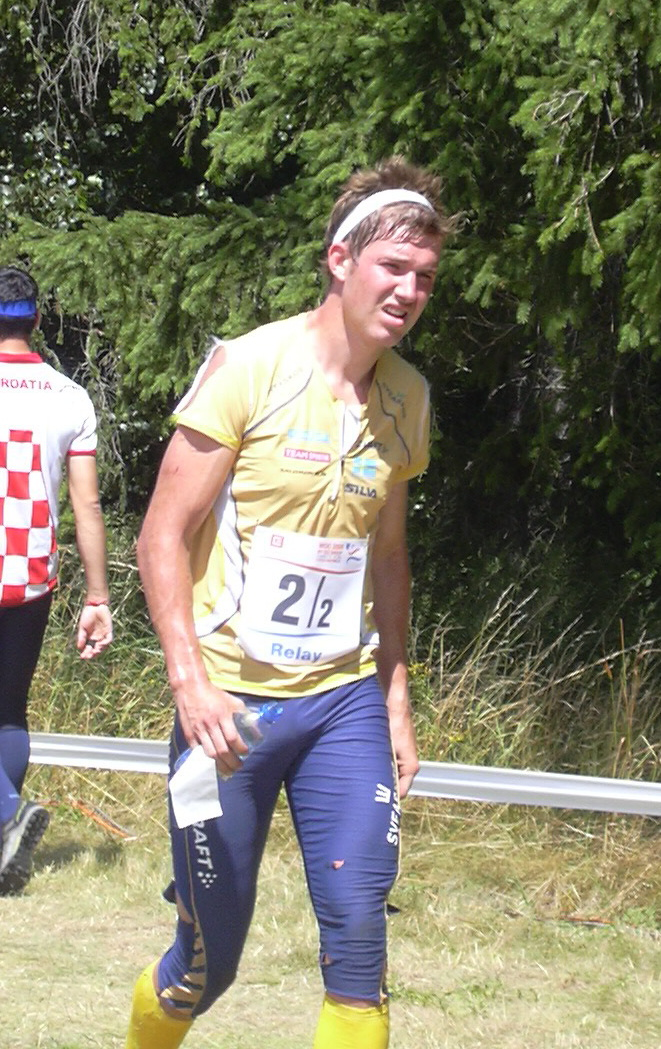 World Orienteering Championships 2008 in Olomouc, Czech Republic. On photo Martin Johansson.